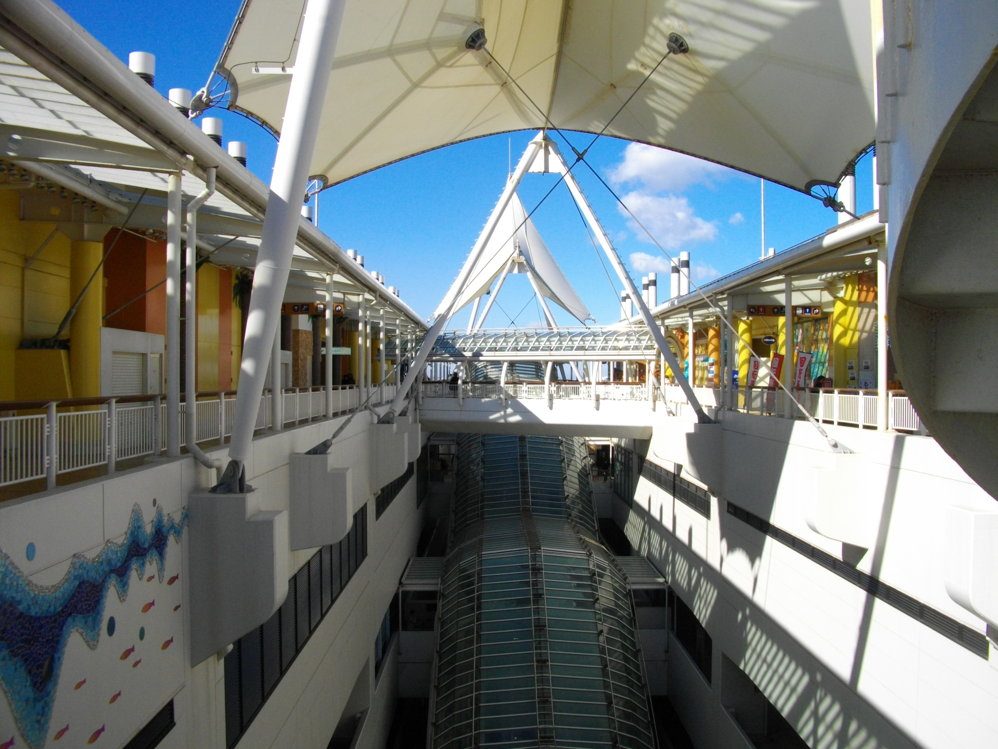 Umihotaru Parking Area Building 5F